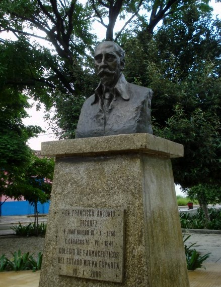 Dr. Francisco Antonio Risquez monument in Juan Griego on Isla Margarita. Venezuela